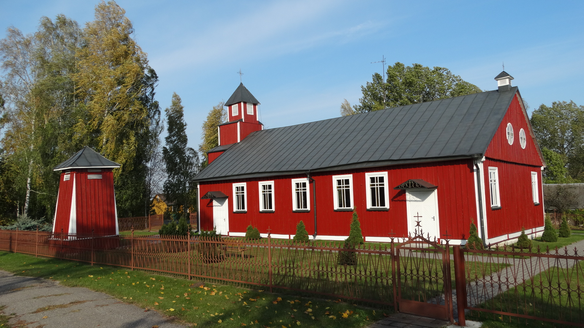 Roman Catholic Church, Santaika, Alytus district, Lithuania